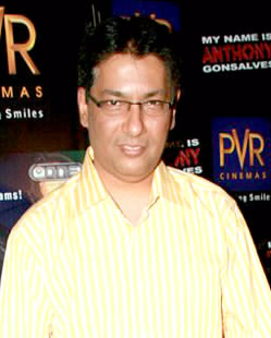 Taran Adarsh at 'My Name Is Anthony Gonsalves' premiere